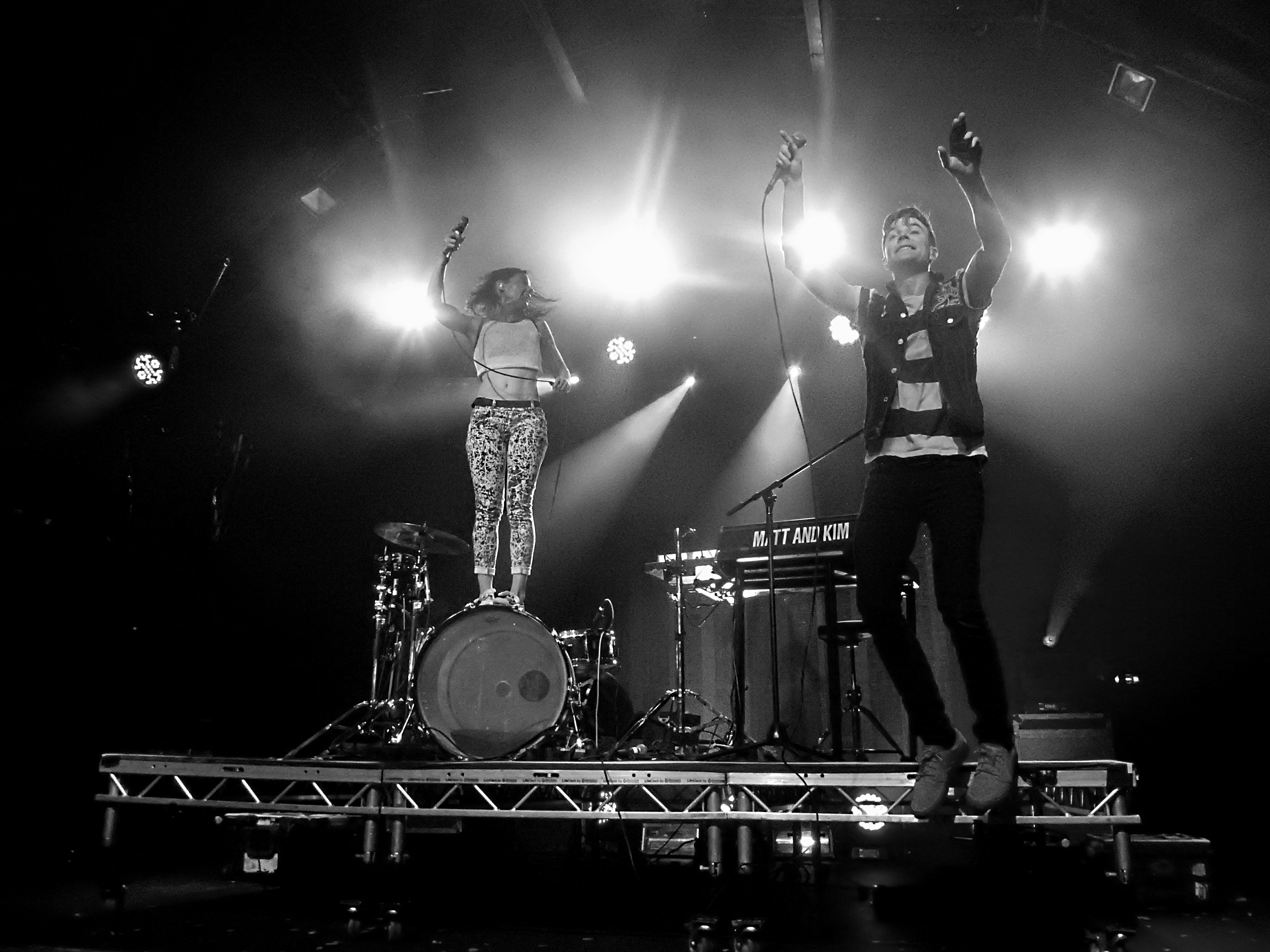 Matt and Kim, Heaven, London